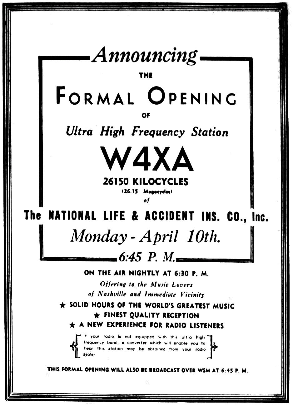 W4XA was an experimental AM high-fidelity "ultra shortwave" broadcasting station (commonly known as an "Apex" station"), that operated from 1939-1940 as a sister station to AM station WSM in Nashville, Tennessee.